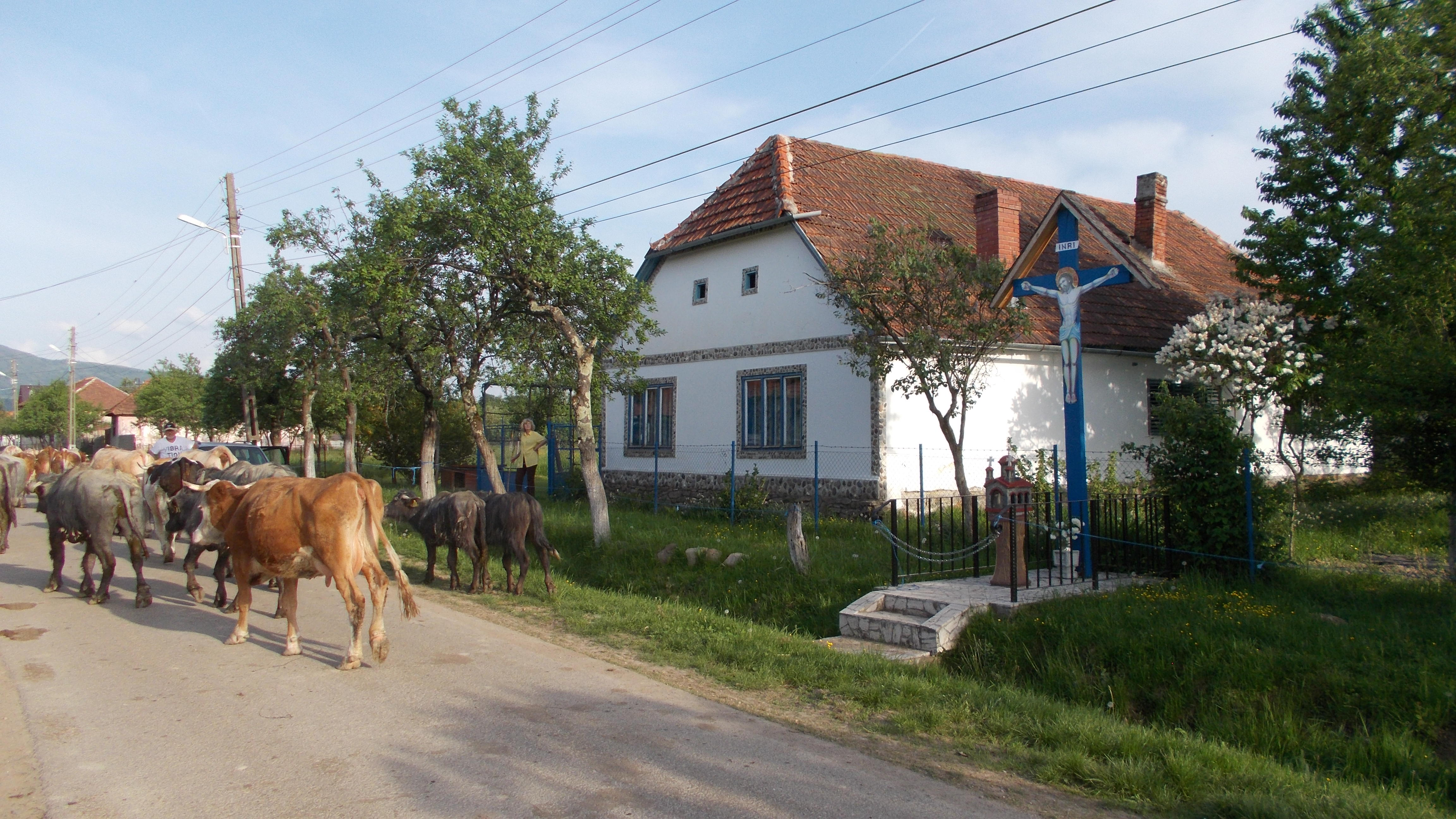 Saca, Bihor County, Romania